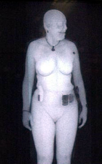 An image of Susan Hallowell, Director of the Transportation Security Administration's research lab. [1] taken with backscatter x-ray system, which is in use for airport security passenger screening. This is not the image that screeners see at the airports. The machine that took this image does not have the privacy algorithm.